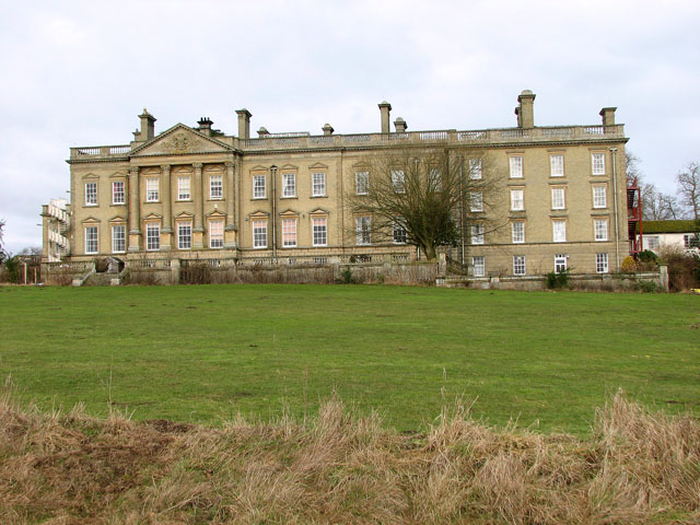 Riddlesworth Hall School Riddlesworth Hall Prep School is an IAPS school catering for day girls and boys aged from 2 to 13. Lady Diana Spencer was educated at Riddlesworth Hall School. Only girls can board, with all boys being day pupils. Presently the school has 34 boys and 99 girls. An increasing number of overseas students have attended the school during the past few years studying at the school's Diana Princess of Wales International Study Centre which strives to achieve the highest standards of English Education for overseas students. The school also offers places to children with learning difficulties. The village of Riddlesworth is mentioned in Alan Davison's book 'Deserted Villages in Norfolk' as having been a small and moderately prosperous place in the 1340s. By 1584 it was tiny, consisting of manor house, church, rectory and 10 houses, and in the 1670s its size had dwindled to two houses and 15 people. Whether as a result of depopulation by the Drurys, the Lords of the Manor, is not known. The modern-day hamlet consists of Manor Farm, a handful of cottages and St Peter's church. The Hall, and attractive Georgian-style house surrounded by 30 acres of parkland, now functions as a school.